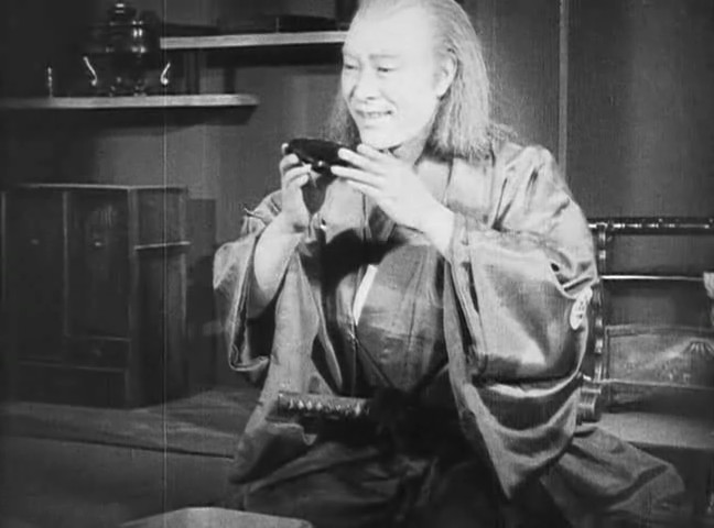 Orochi